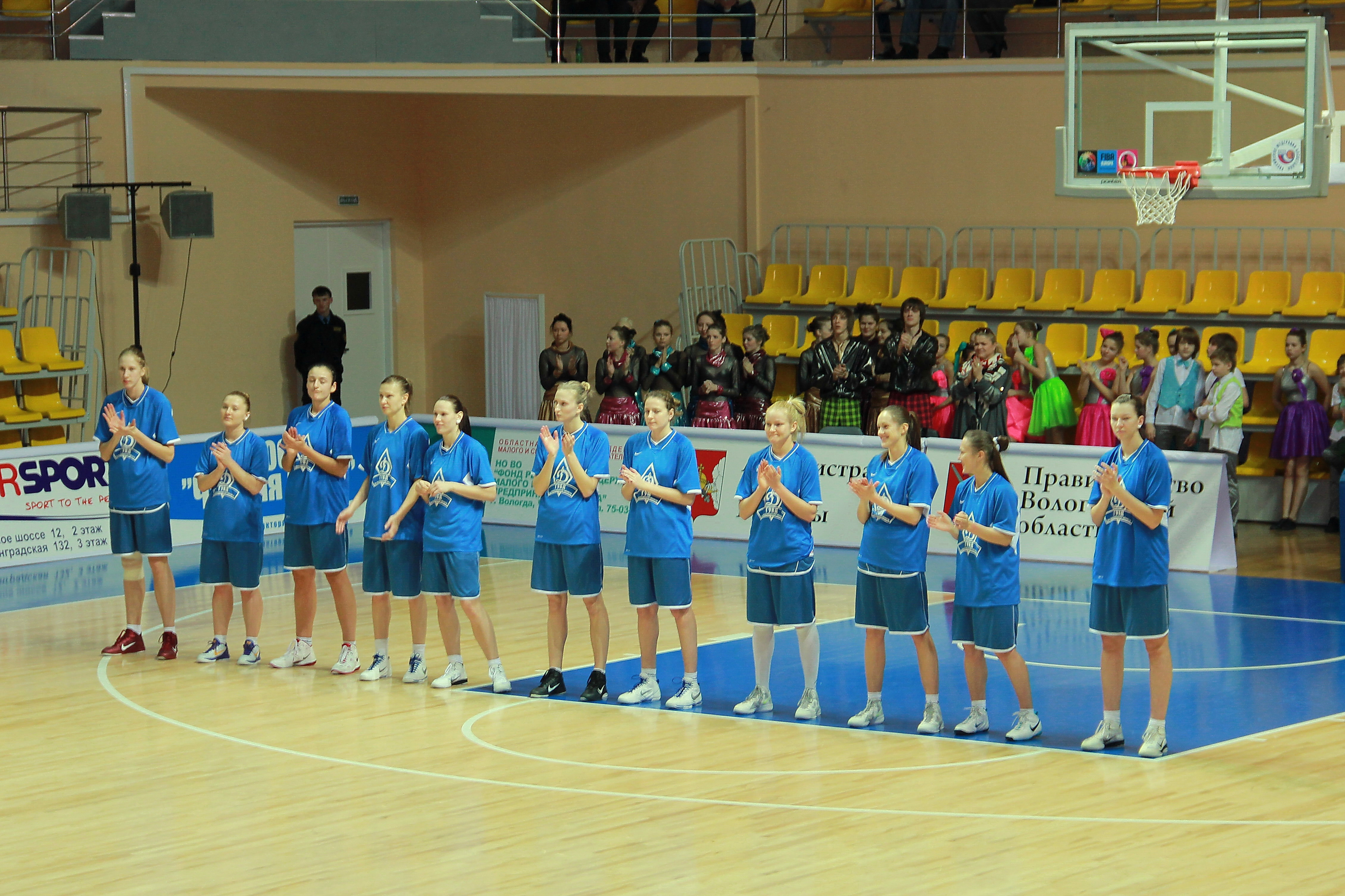 Russia, Women's basketball club «Dynamo-GUVD» (Novosibirsk)